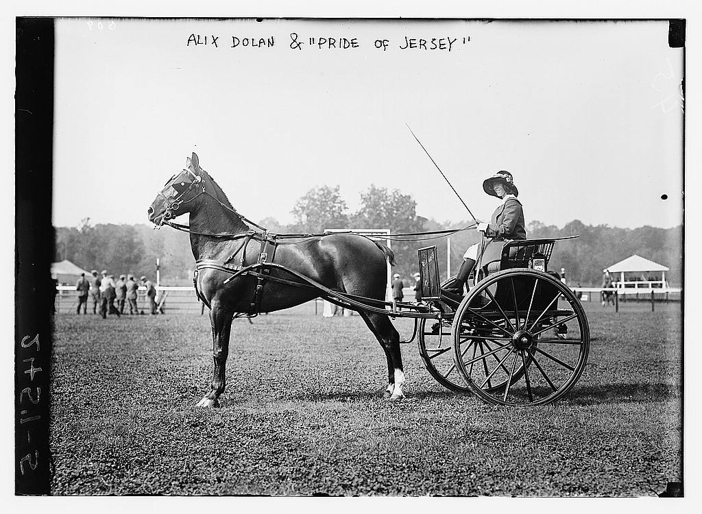 Bain News Service,, publisher. Alix Dolan & "Pride of Jersey" at the Piping Rock Club in 1912 or 1913 [between 1910 and 1915] 1 negative : glass ; 5 x 7 in. or smaller. Notes: Title from unverified data provided by the Bain News Service on the negatives or caption cards. Forms part of: George Grantham Bain Collection (Library of Congress). Format: Glass negatives. Repository: Library of Congress, Prints and Photographs Division, Washington, D.C. 20540 USA, General information about the Bain Collection is available at Persistent URL: Call Number: LC-B2- 2457-5